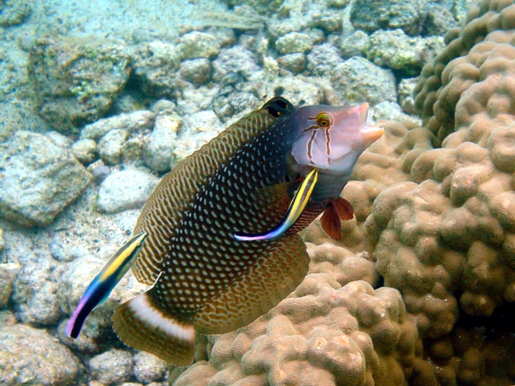 A dragon wrasse, Novaculichthys taeniourus is being cleaned by Rainbow cleaner wrasses, Labroides phthirophagus on a reef in Hawaii.